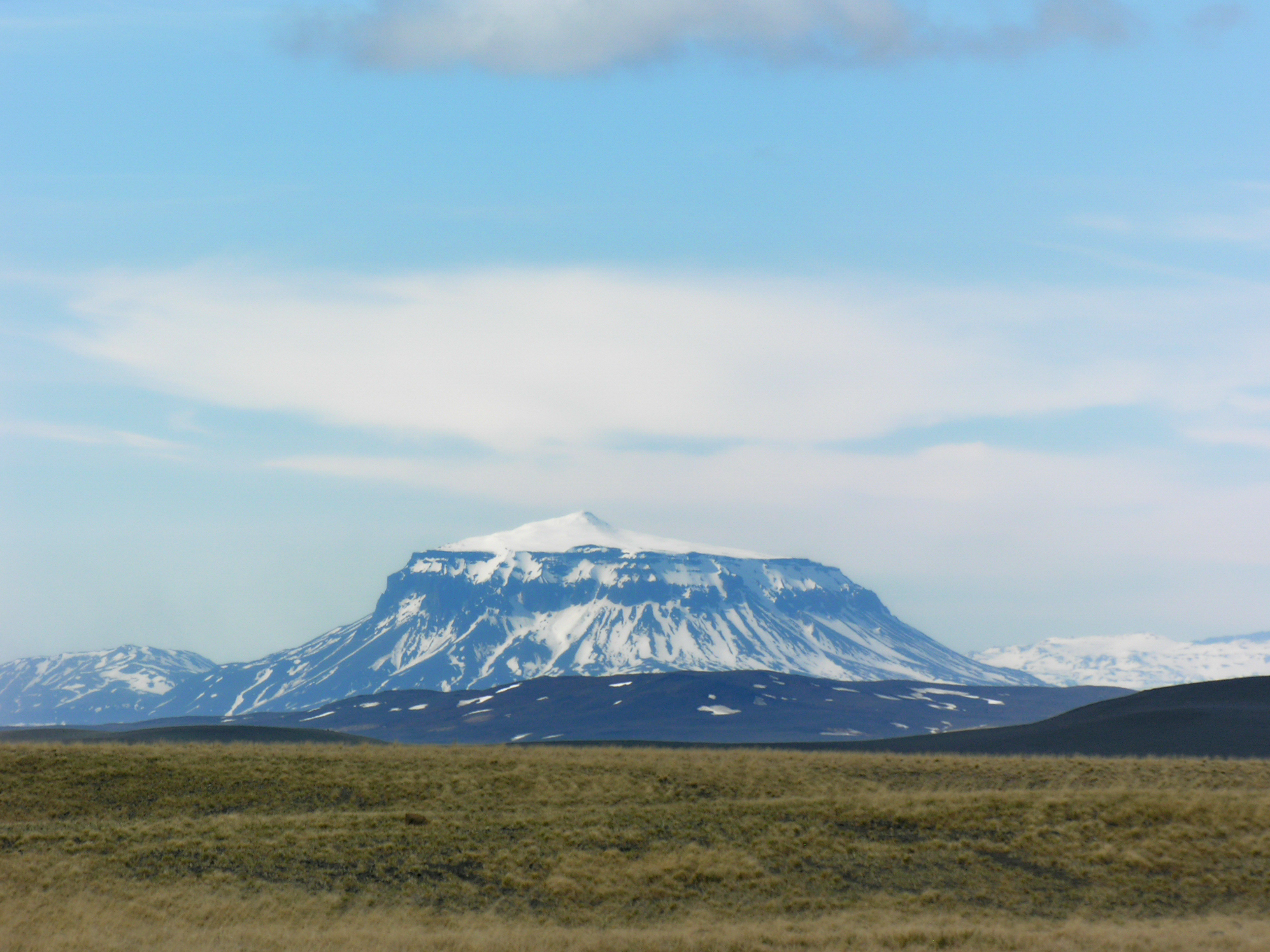 Iceland, along the ring road - Hringvegur - in the Eastern part of Iceland.